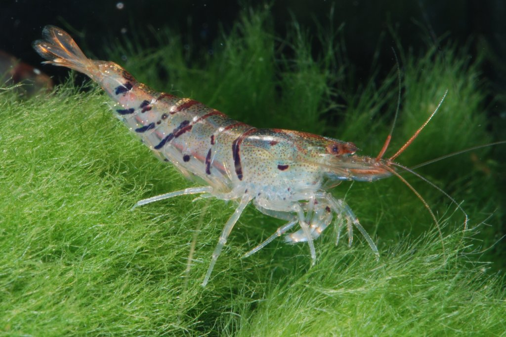 Caridina cf. cantonensis tiger is a freshwater shrimp. It is transparent with black stripes.